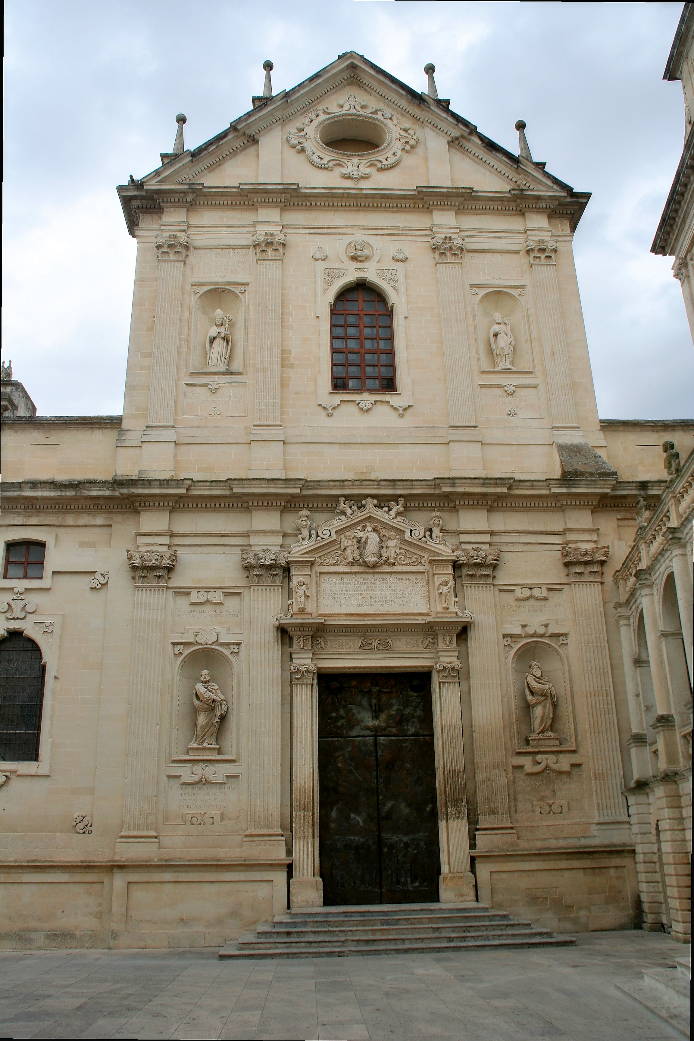 Lecce's Cathedral.